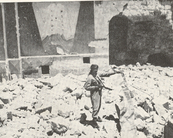 Arab Legion soldier standing in ruins of Hurva synagogue holding up a desecrated Torah Scroll, Jerusalem, May 1948.